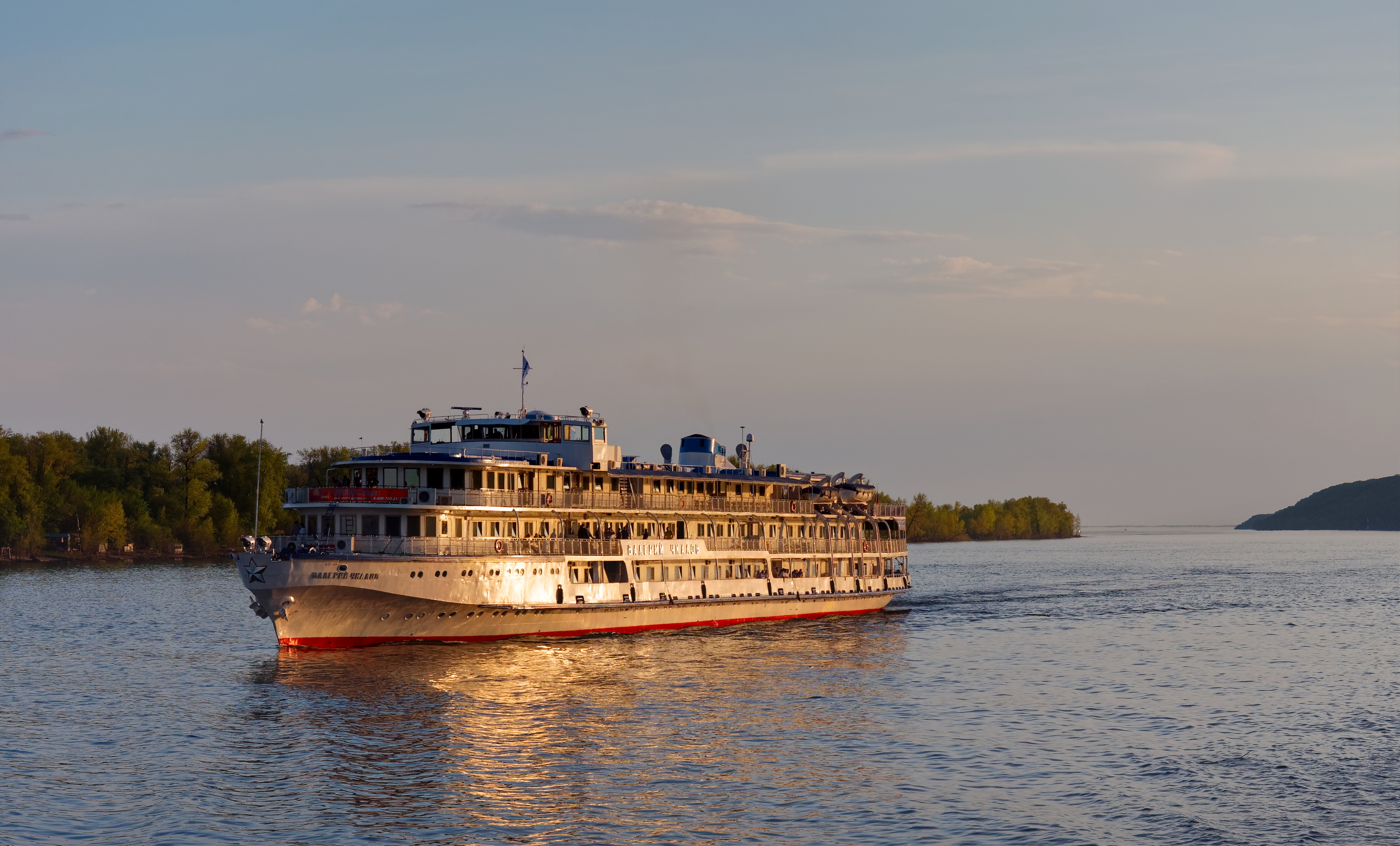 Volga River. River cruise ship "Valeriy Chkalov"